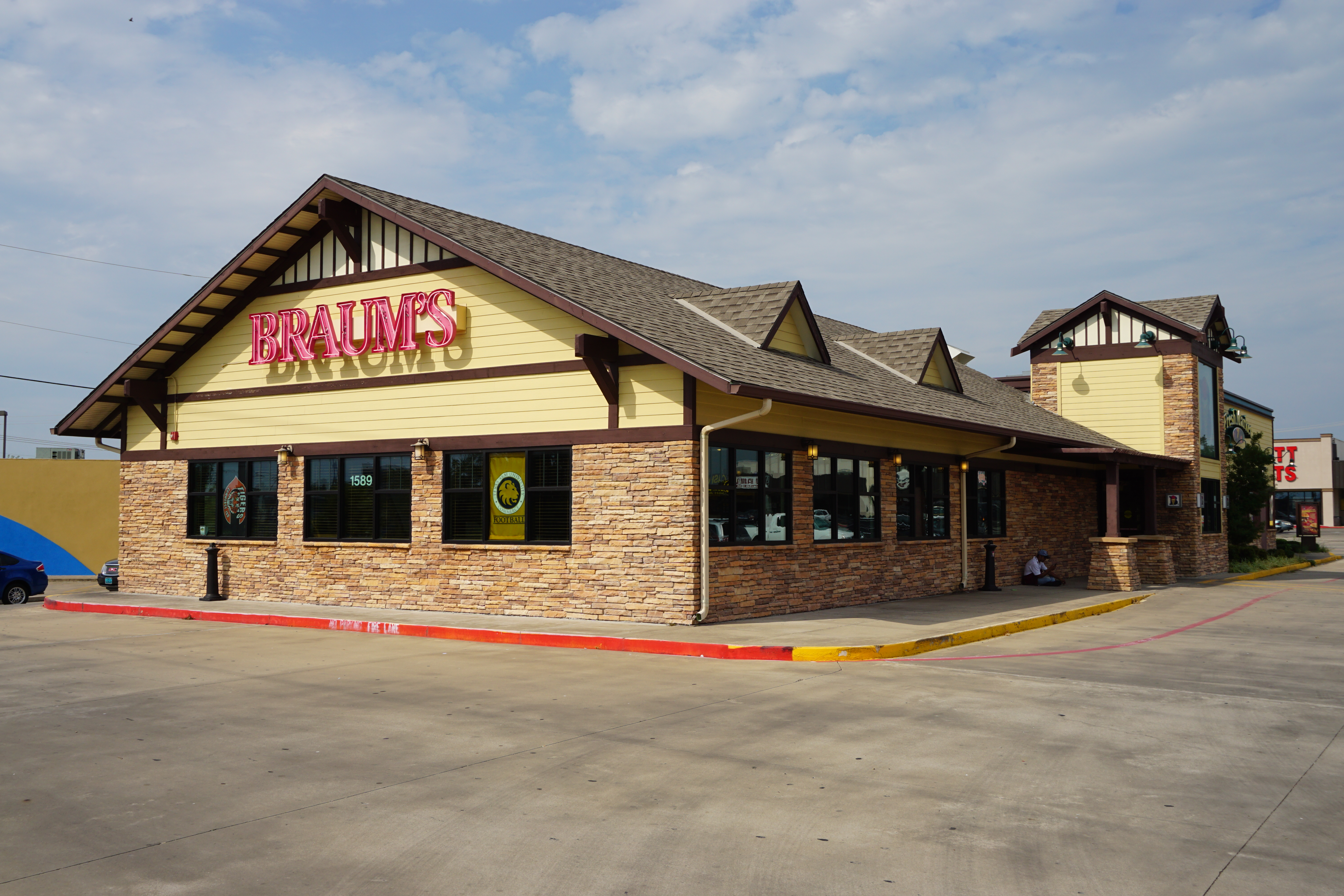 Braum's in Commerce, Texas (United States).